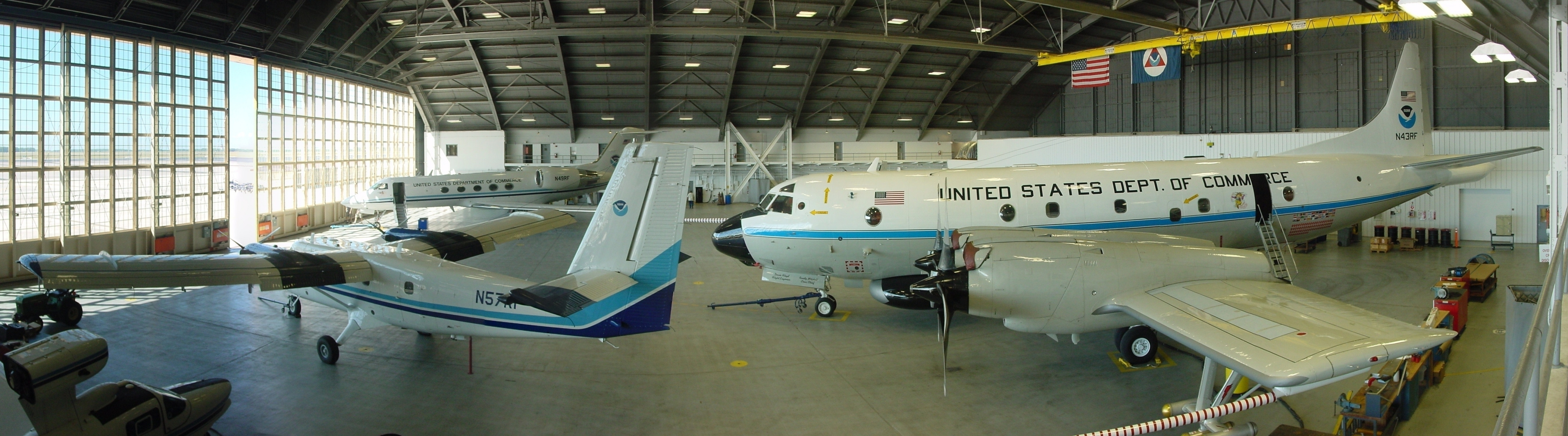 This photograph was taken inside Hangar 5 at MacDill AFB, home of the NOAA's Aircraft Operations Center.